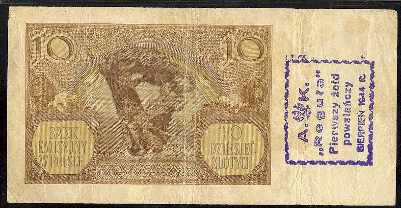 Back of 10 złoty Banknote from Poland, with a Warsaw Uprising Stamp